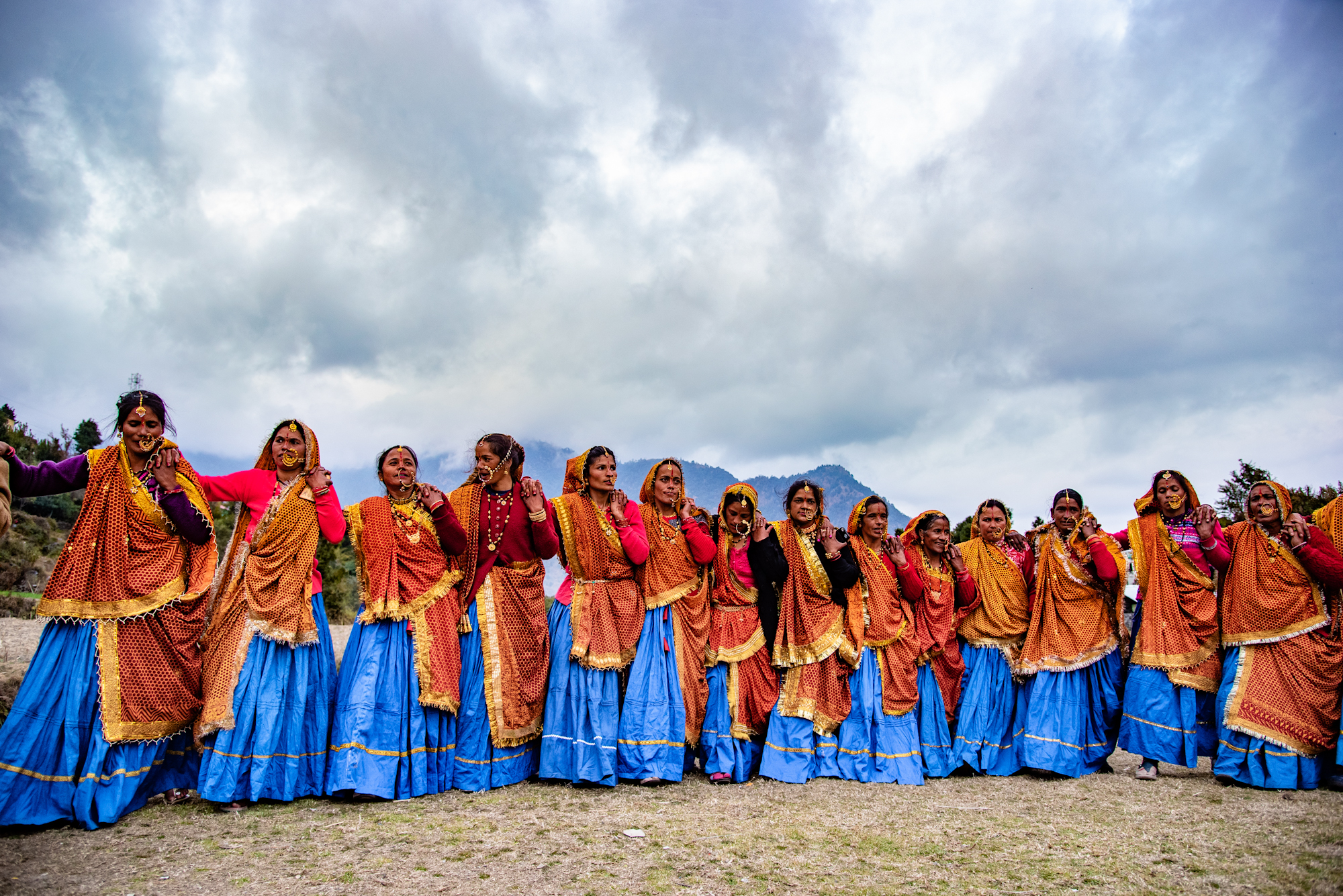 This is Chanchari/Jhoda Dance of kumaon region of Uttarakhand, India This photo has been taken in the country: India